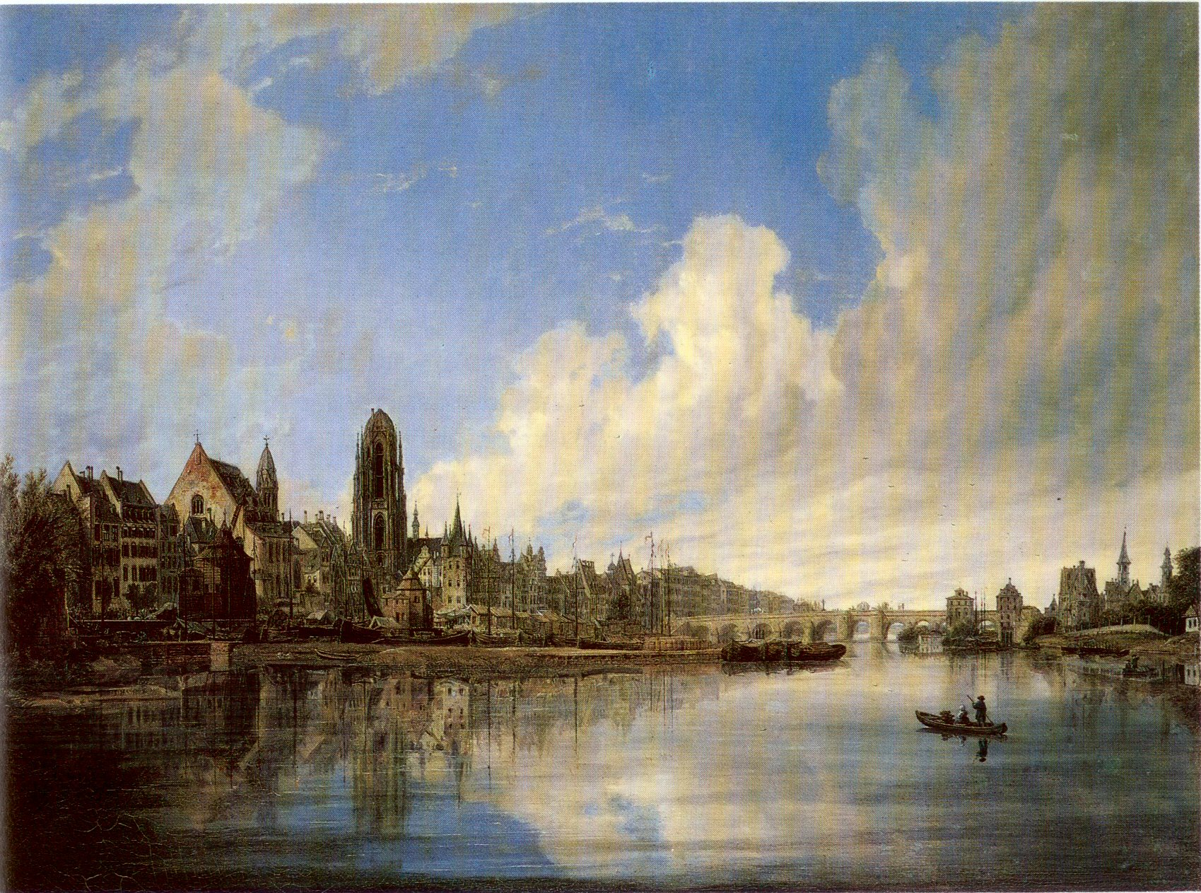 Domenico Quaglio, view of the city of Frankfurt from the west